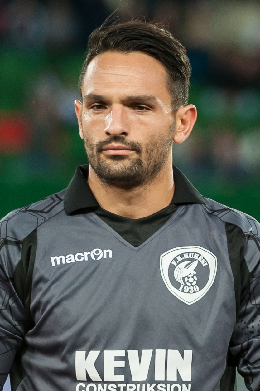 UEFA Europa League - FK Austria Wien vs FK Kukesi, 2016-07-14.